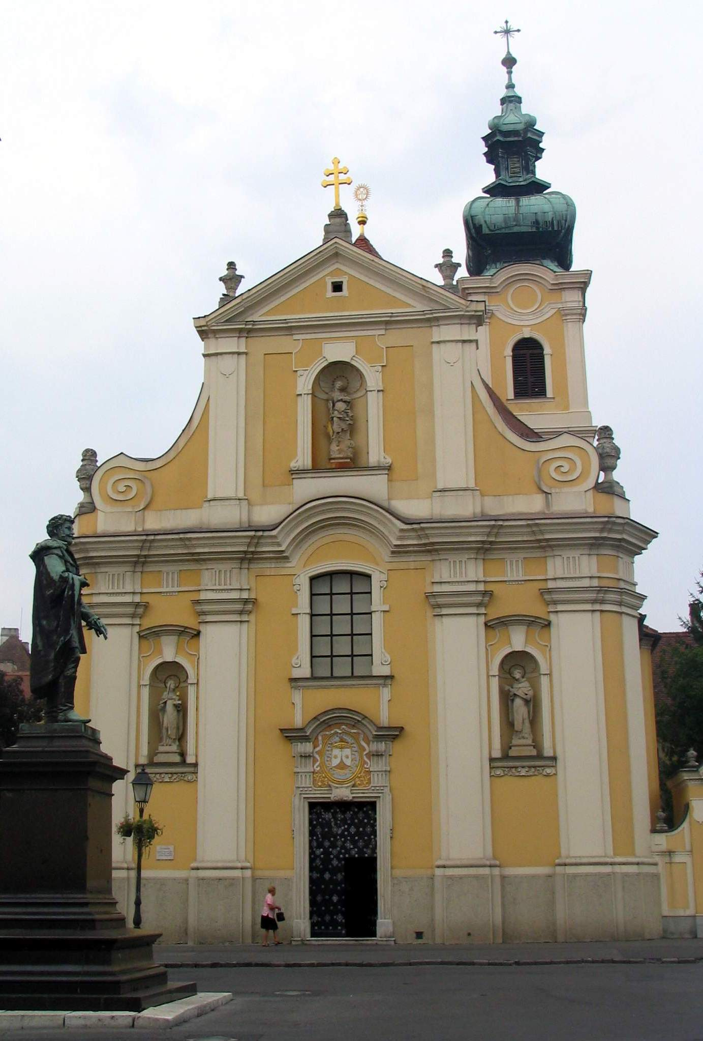 Gyor_Carmelite_Church